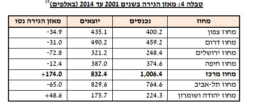 Migration balance